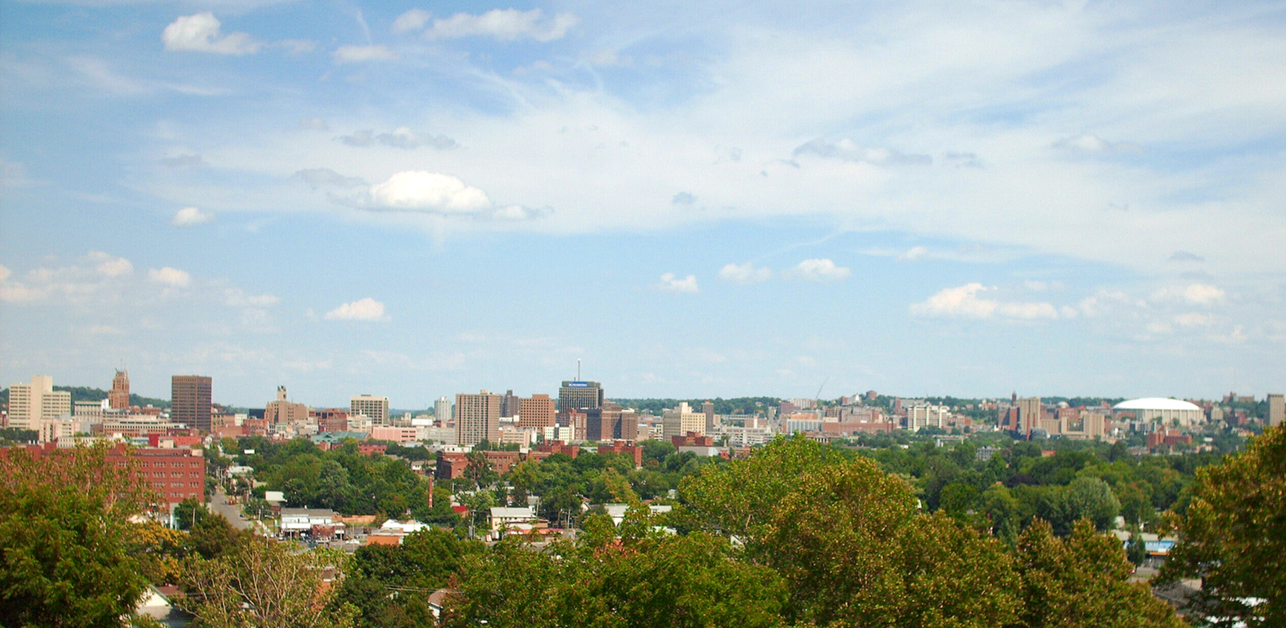 Photo of the Downtown Syracuse, New York skyline, taken by me on 7/24/06 -- Gizzakk 20:45, 24 July 2006 (UTC)